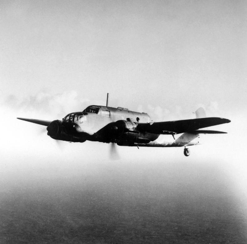 A Royal Air Force Bristol Beaufort Mark I (s/n L4474) on patrol over the Atlantic Ocean. While serving with No. 217 Squadron RAF, L4474 was lost during a bombing raid on Lorient, France, on 20 December 1940.